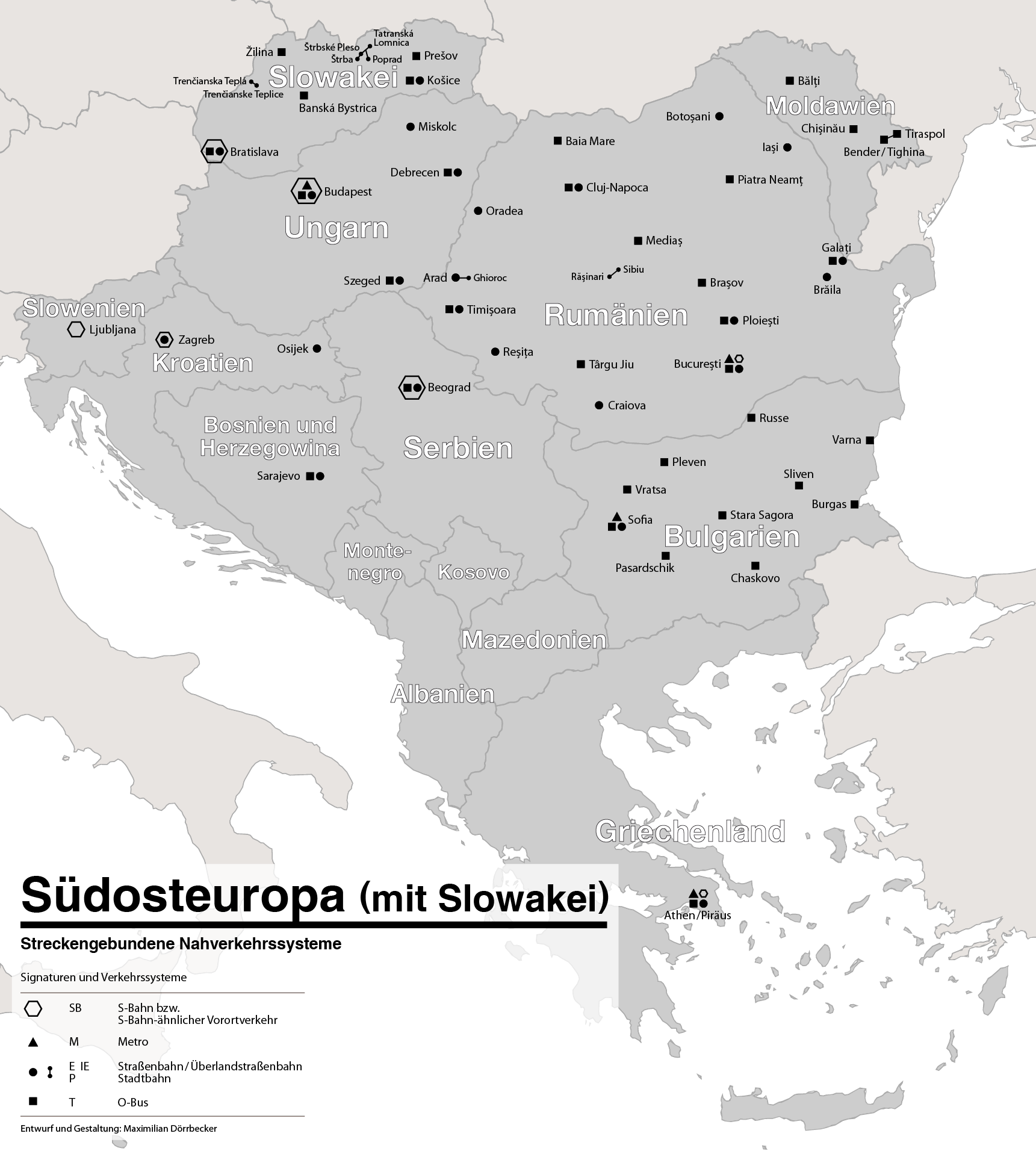 Map of fixed-route public transport systems (suburban railways, Rapid Transit and Light Rail Transit systems, tram, trolleybus) in Southeast Europe and in Slovakia (August 2011)